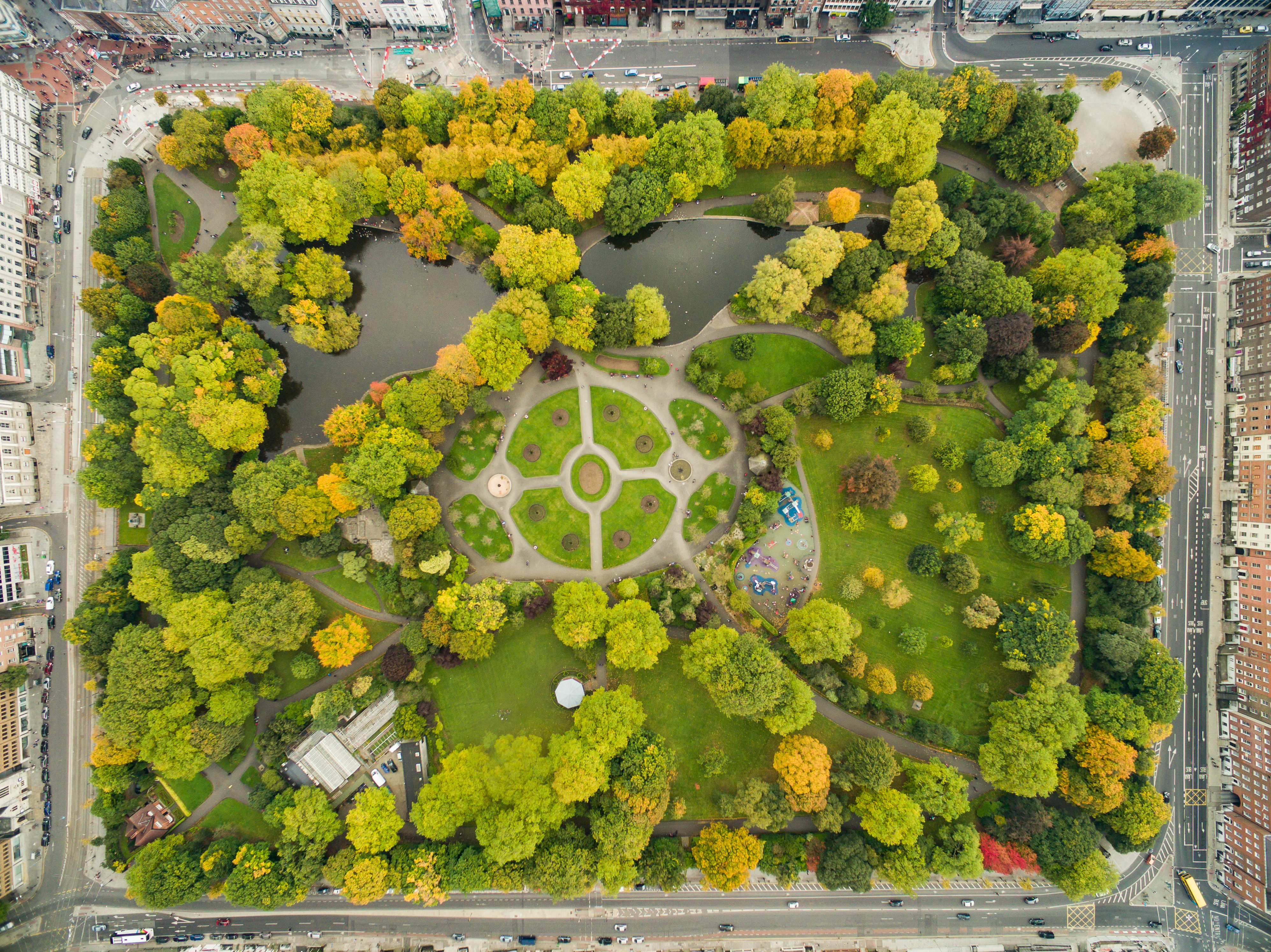 An aerial view of St Stephen's Green in the centre of Dublin, during Indian summer.